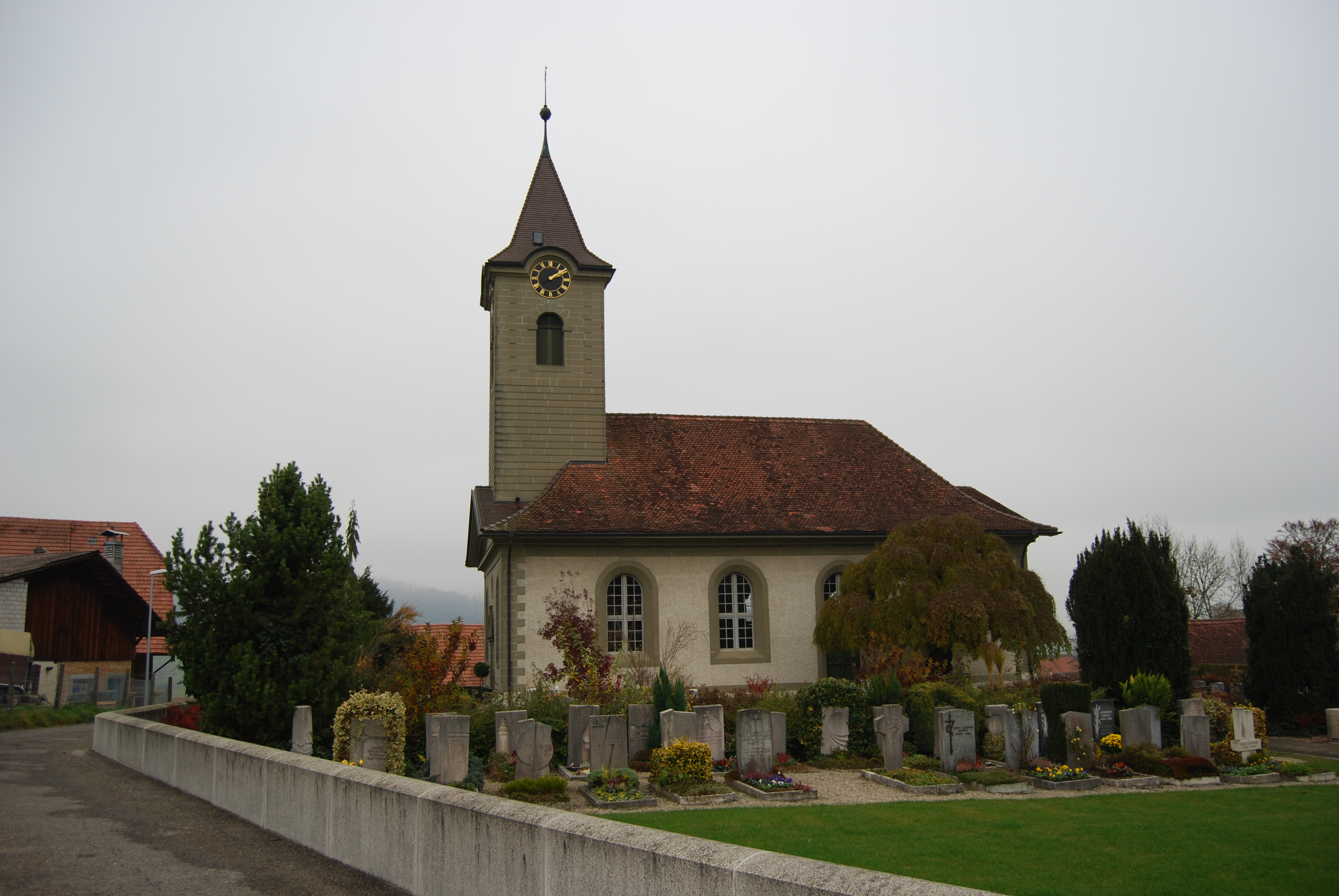 Protestant Church of Limpach, canton of Bern, Switzerland